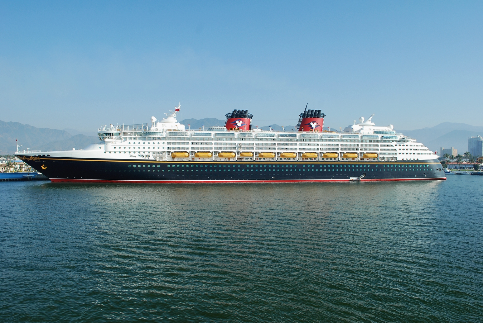 Disney Wonder in Puerto Vallarta Information about Disney Wonder may be found at IMO 9126819.A ship can change name and flag state through time, but the IMO number remains the same through the hull's entire lifetime. As a result, it can be useful to identify a ship by using the IMO number.